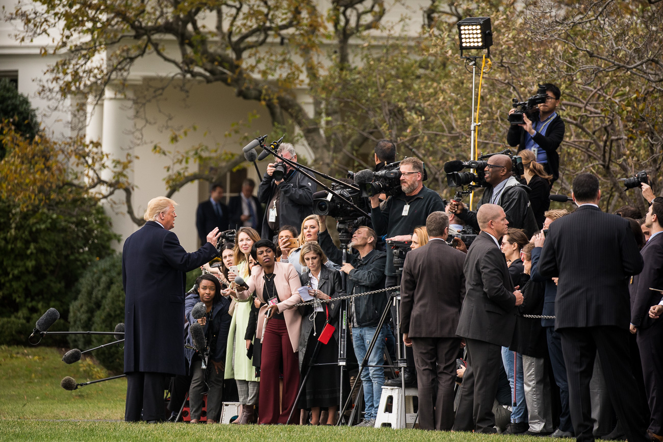 Donald J. Trump stops to talk to the media Friday, Nov. 2, 2018, before departing the South Lawn of the White House aboard Marine One.(Official White House Photo by Shealah Craighead)